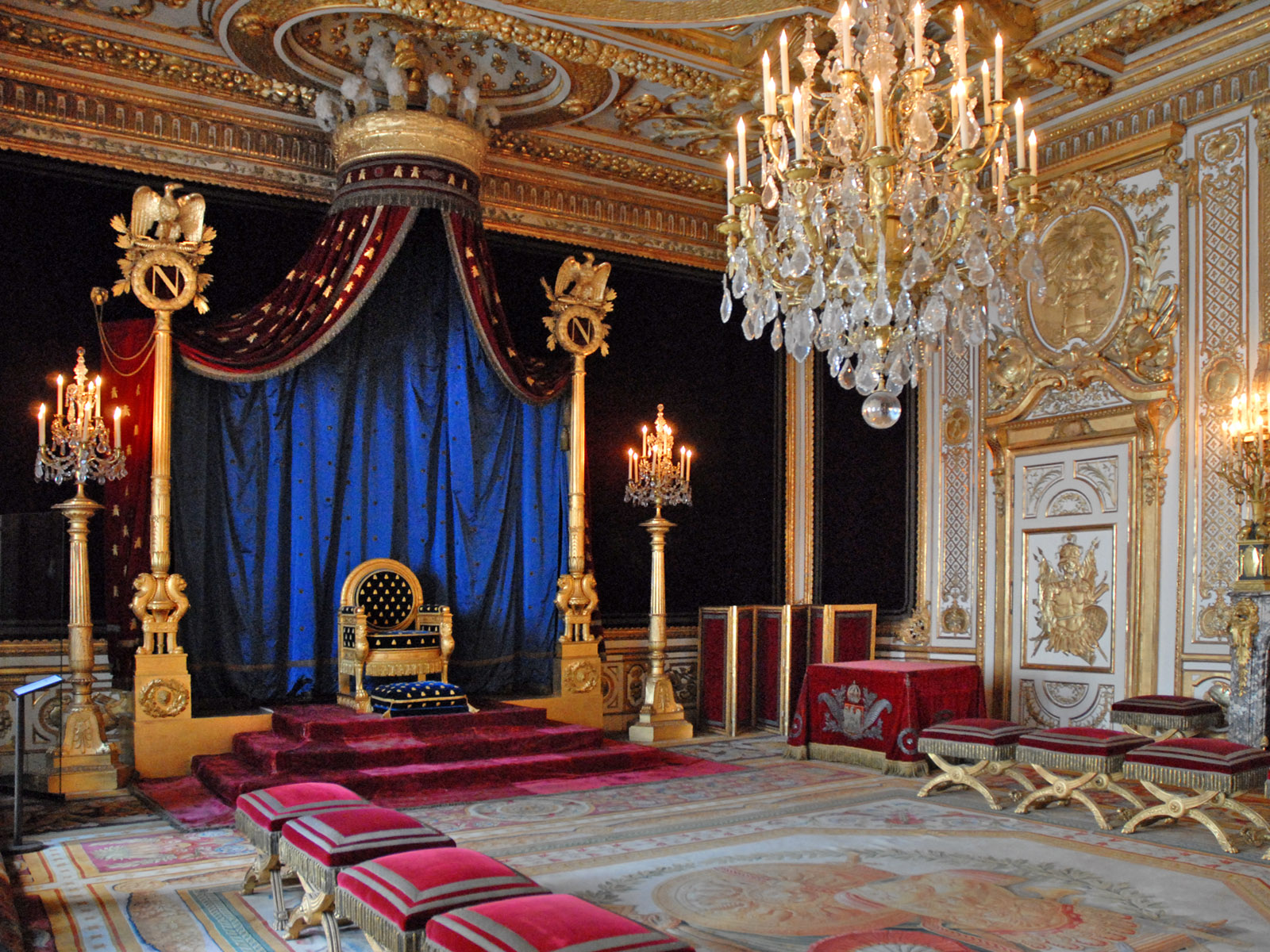 Chateau de Fontainebleau, France Salle du trône. Cette pièce fut la chambre du Roi, du 17ème siècle à la Révolution. Napoléon 1er la transfroma en salle du Trône. Le château de Fontainebleau offre le souvenir de plus de 700 ans de présence des souverains de France, de l’intronisation de Louis VII en 1137 à la chute du Second Empire en 1870.